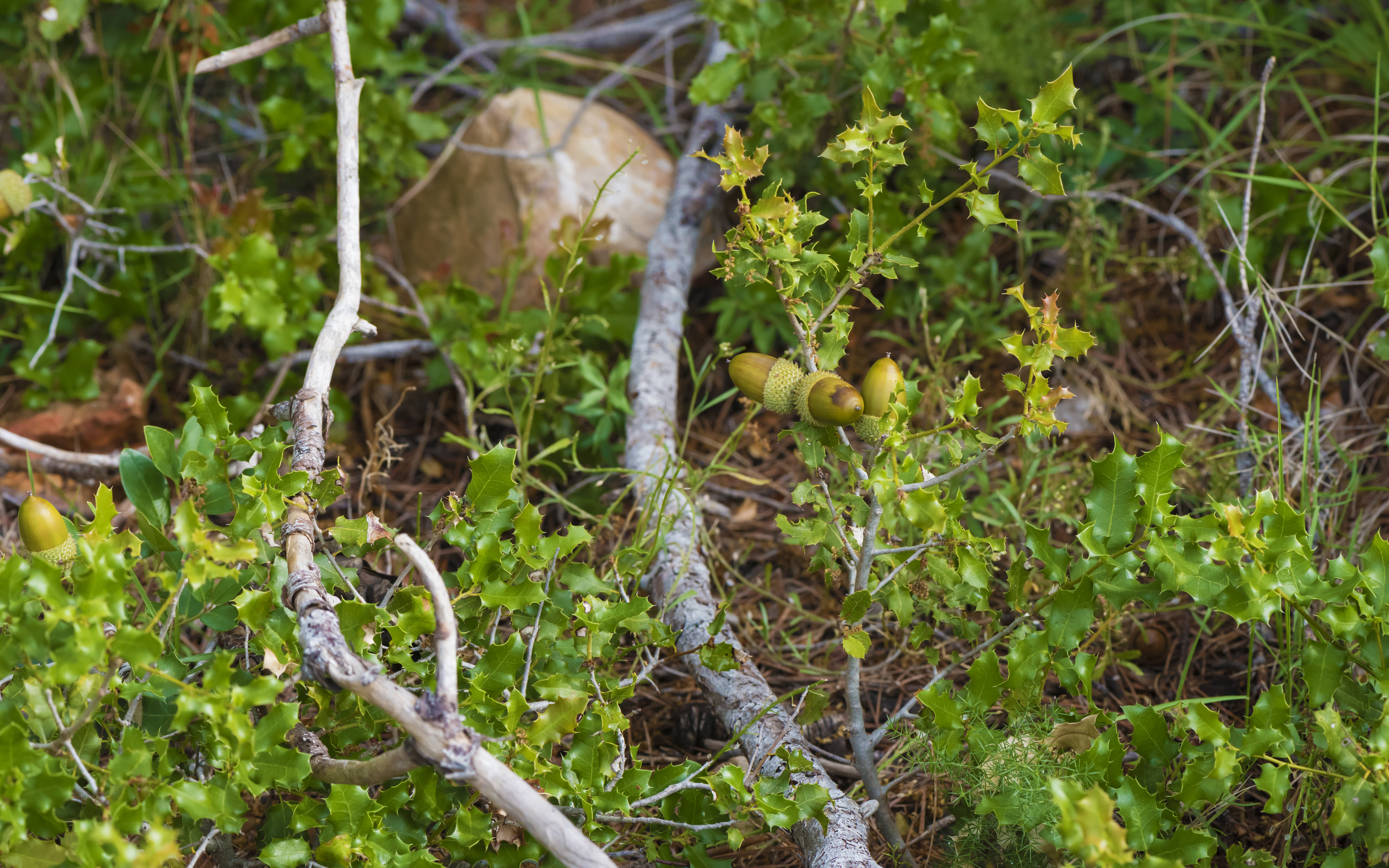 Quercus coccifera (Kermes Oak).